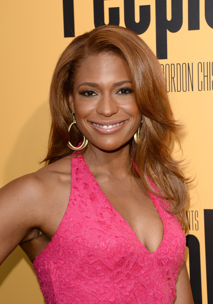 Kimrie Lewis-Davis attends Peeples premiere